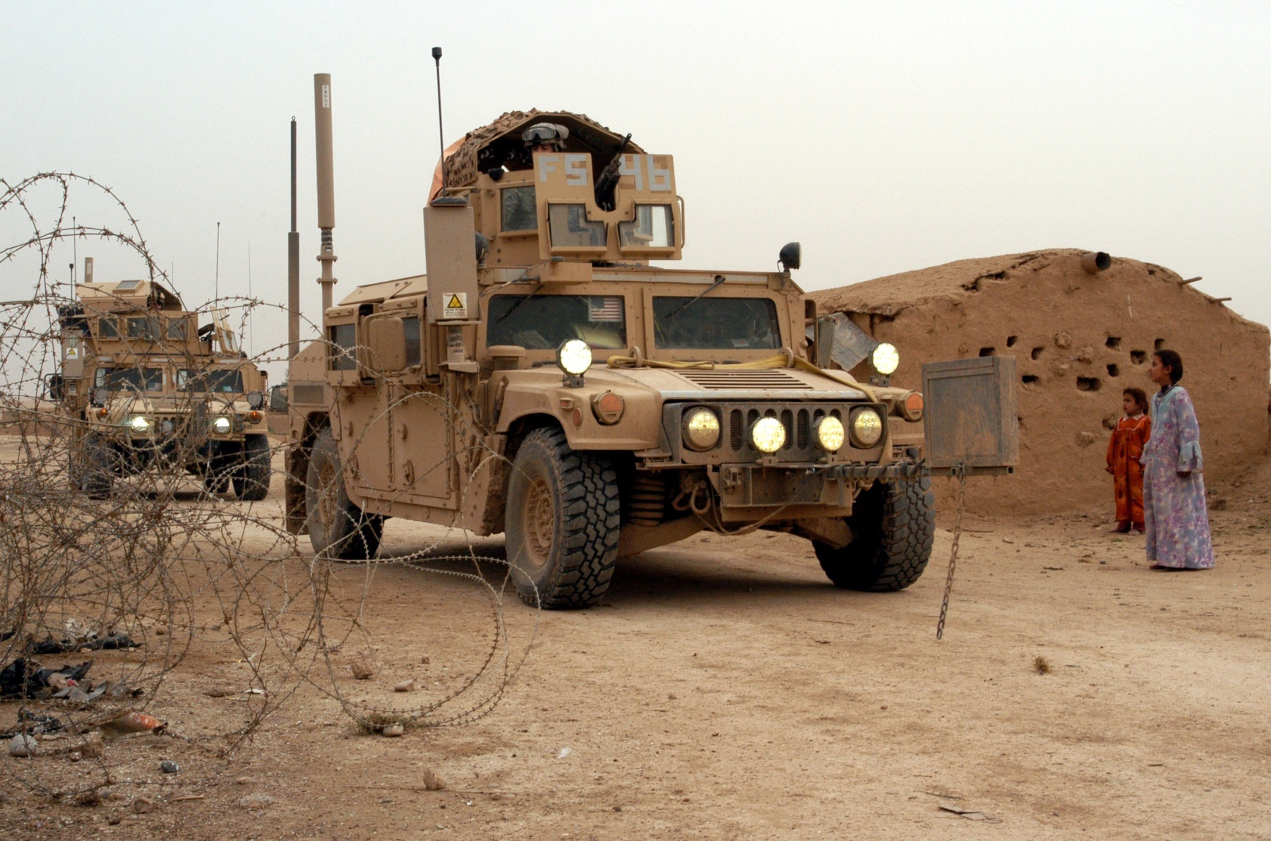 Gun trucks with A Company, 2nd Battalion, 198th Combined Arms, 155th Brigade Combat Team, out of Hernando, Miss., enter the village of Jedallah Anuk, a small community near COL Q-West, during a humanitarian mission Feb. 1. The Mississippi Guardsmen, who serve as the Q-West force protection company, were delivering packages in behalf of the people of Barrington, R.I. Since 2003, Barrington has been sending clothing, school supplies and other items to Jedallah Anuk in an Adopt-a-Village program initiated by the 101st Airborne Division.